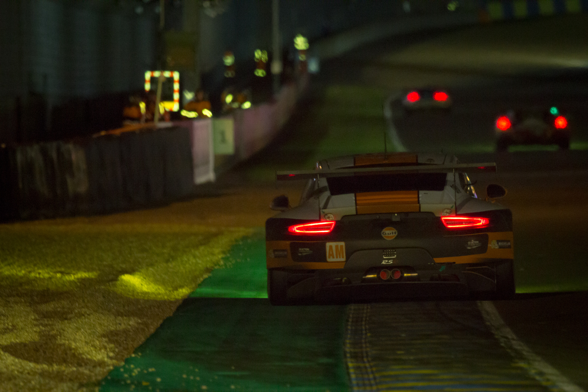 Drivers: Michael Wainwright, Adam Carroll, Benjamin Barker